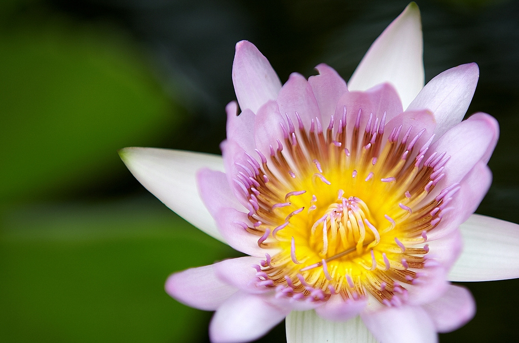 Water Lily